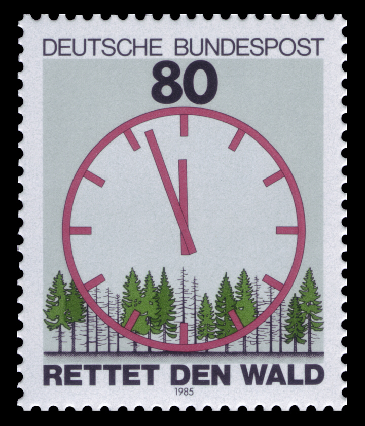 environment protection campaign “Save the Forest”